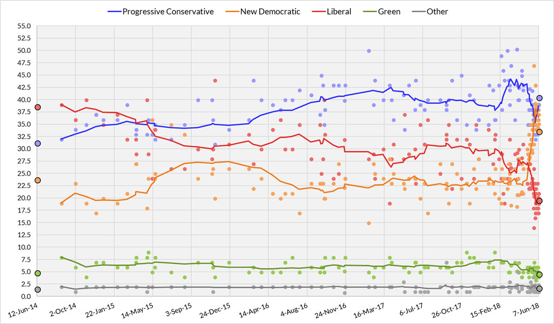 Graph of polling for the period between the 2014 election, and the last possible date of the 66th general election (7 June, 2018).